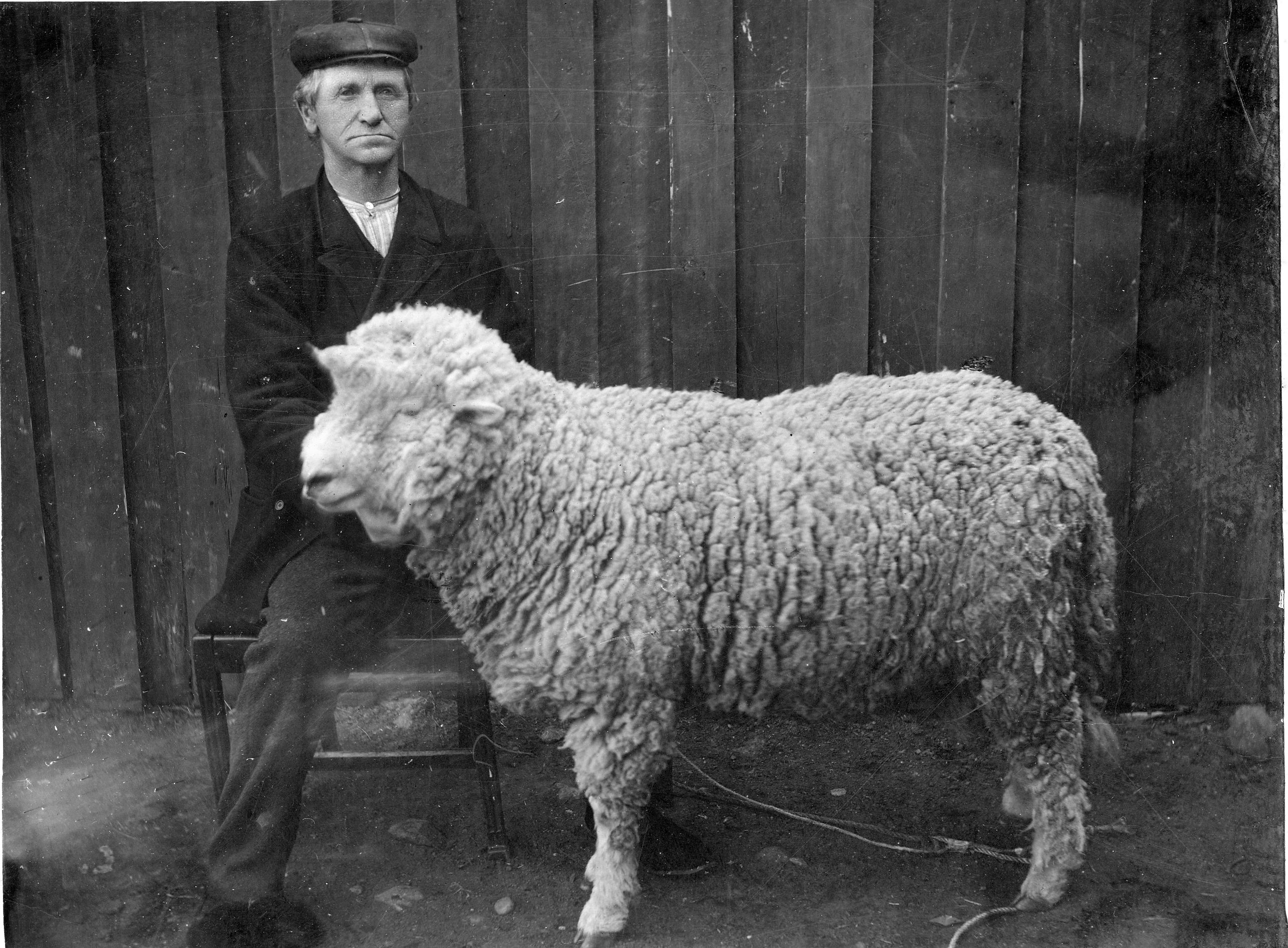 The farmer Lorents Didrich Krog (1842–1926) with a ram of an old Norwegian sheep breed, now extinct (since the 1970es). The breed, Tautersau, was named after the island Tautra, Frosta municipality in Nord-Trøndelag county